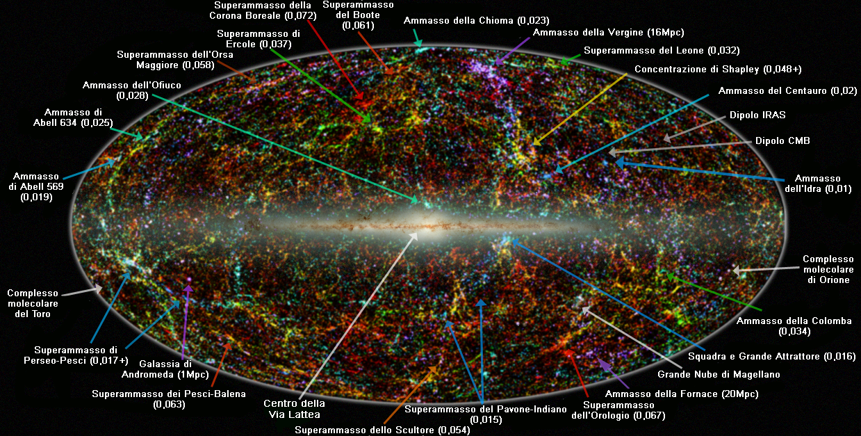 Italian translation of Image:2MASS LSS chart-NEW Nasa.jpg